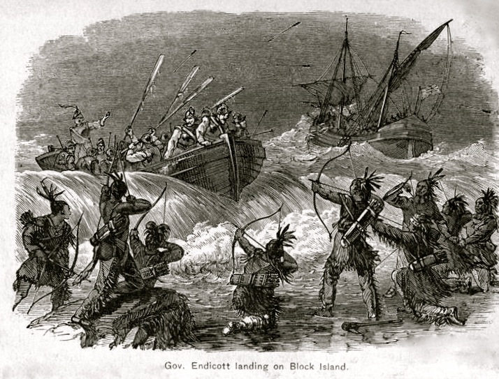 Engraving depicting John Endecott's landing on Block Island at the start of the Pequot War (1636-38).